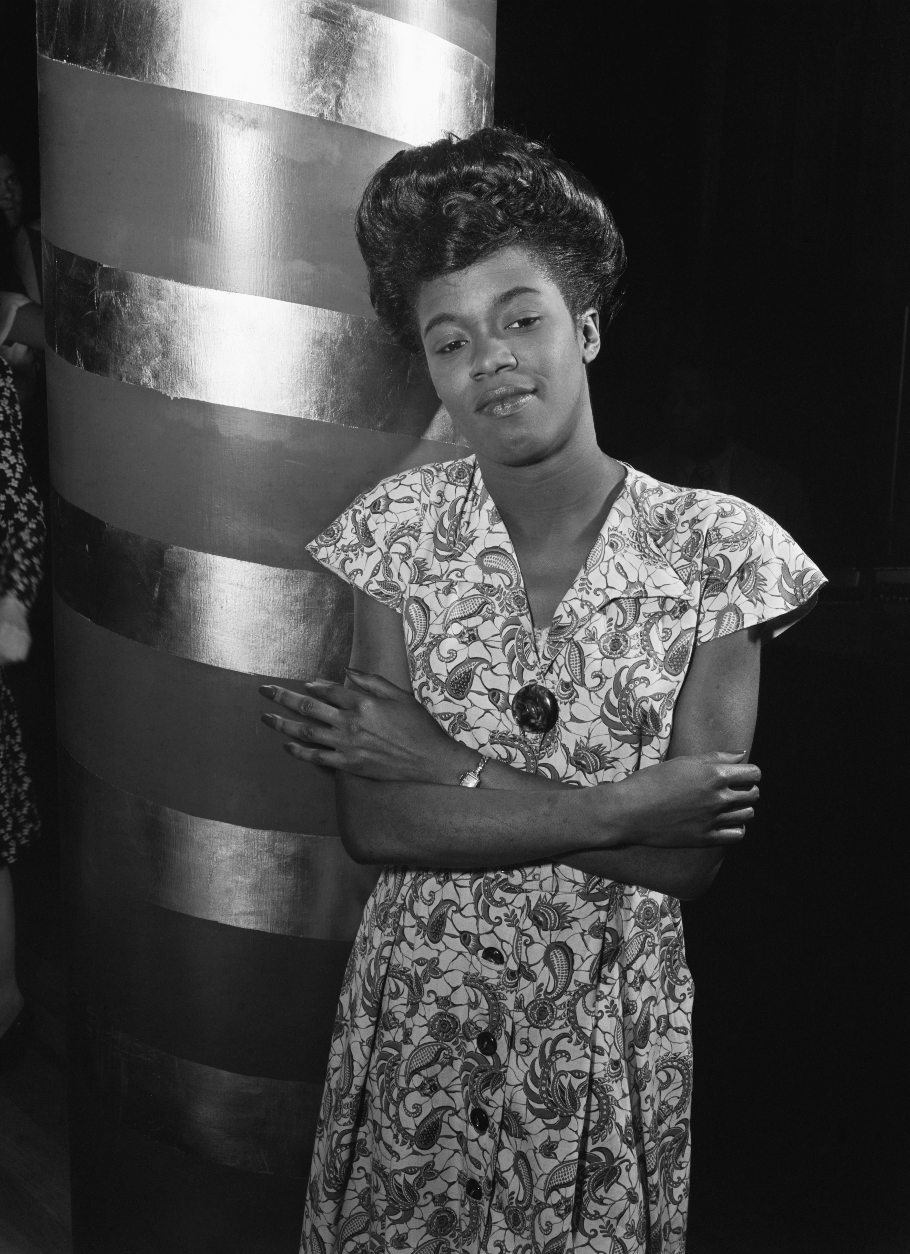 Sarah Vaughan at Cafe Society, NYC, ca. September 1946. Photography by William P. Gottlieb. Gottlieb took several photographs of Vaughan around the same time; the numbering is arbitrary.